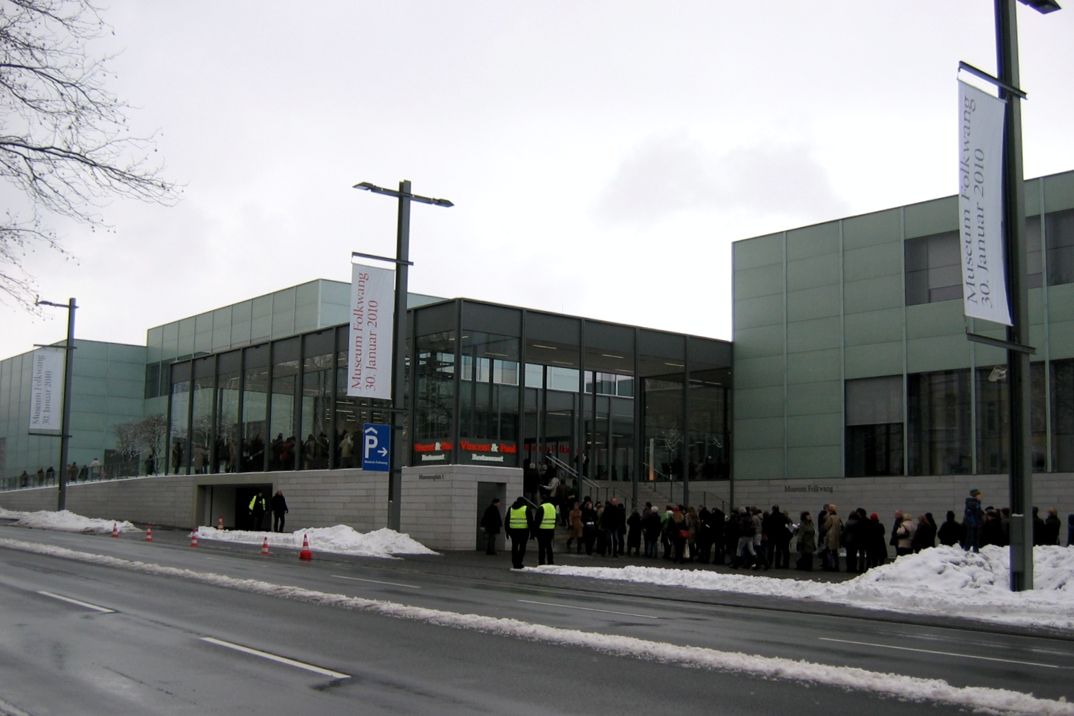 Frontansicht des Museum Folkwang in Essen